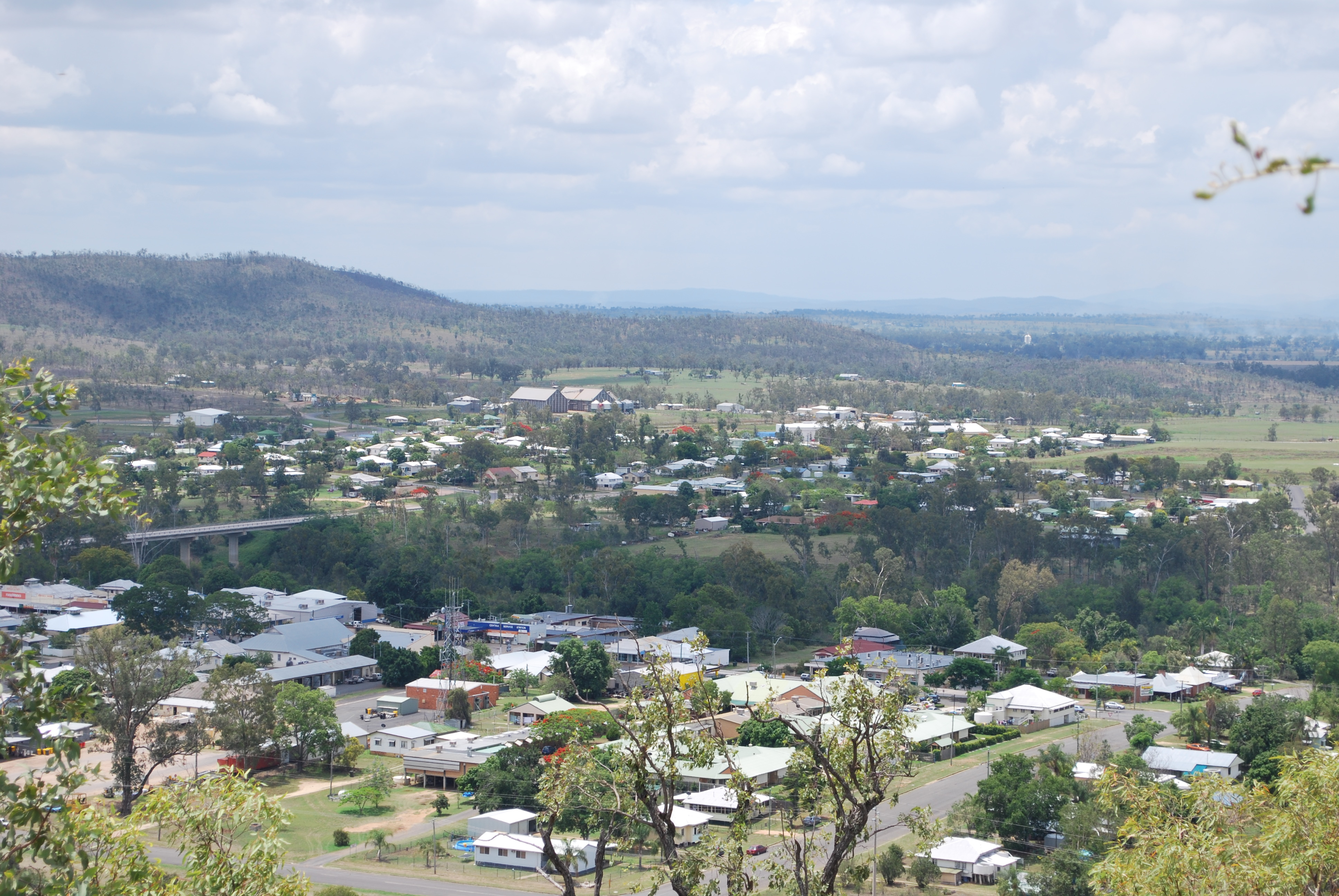 Gayndah, Queensland, seen from the town's scenic lookout